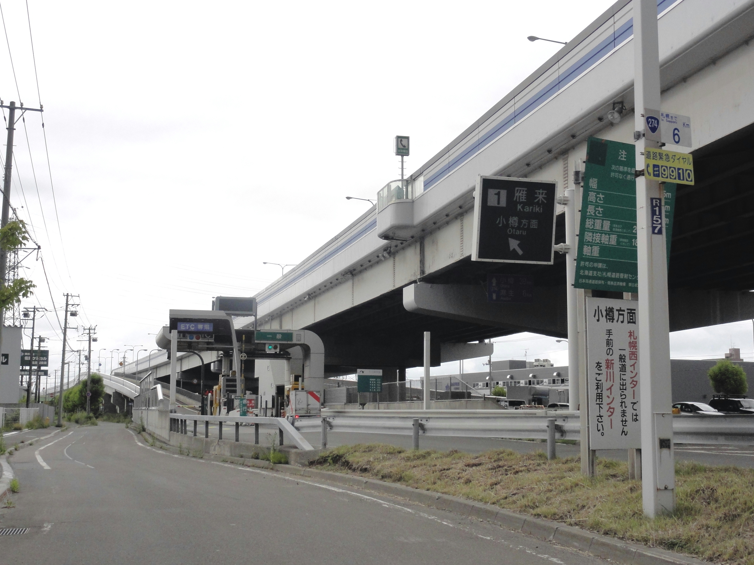 Sasson Expressway, Kariki IC (Higashi-ku, Sapporo, Hokkaidō)